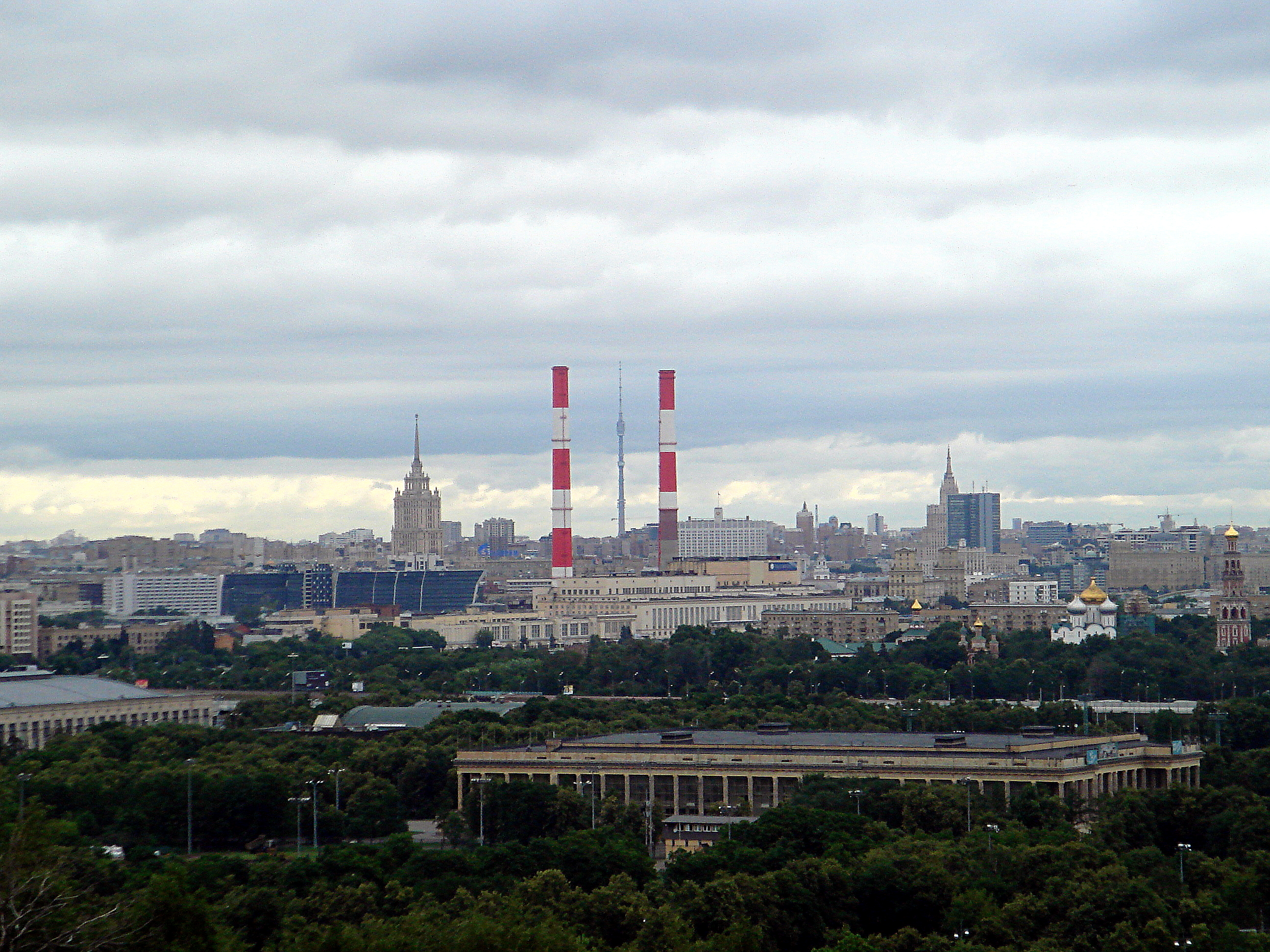 The Moscow Skyline from Sparrow Hills with Ostankino Tower in the distance. Two of the Seven Sisters can be seen